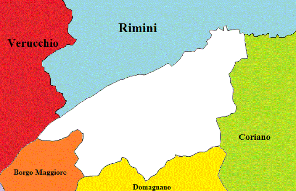 Map of Serravalle (San Marino)